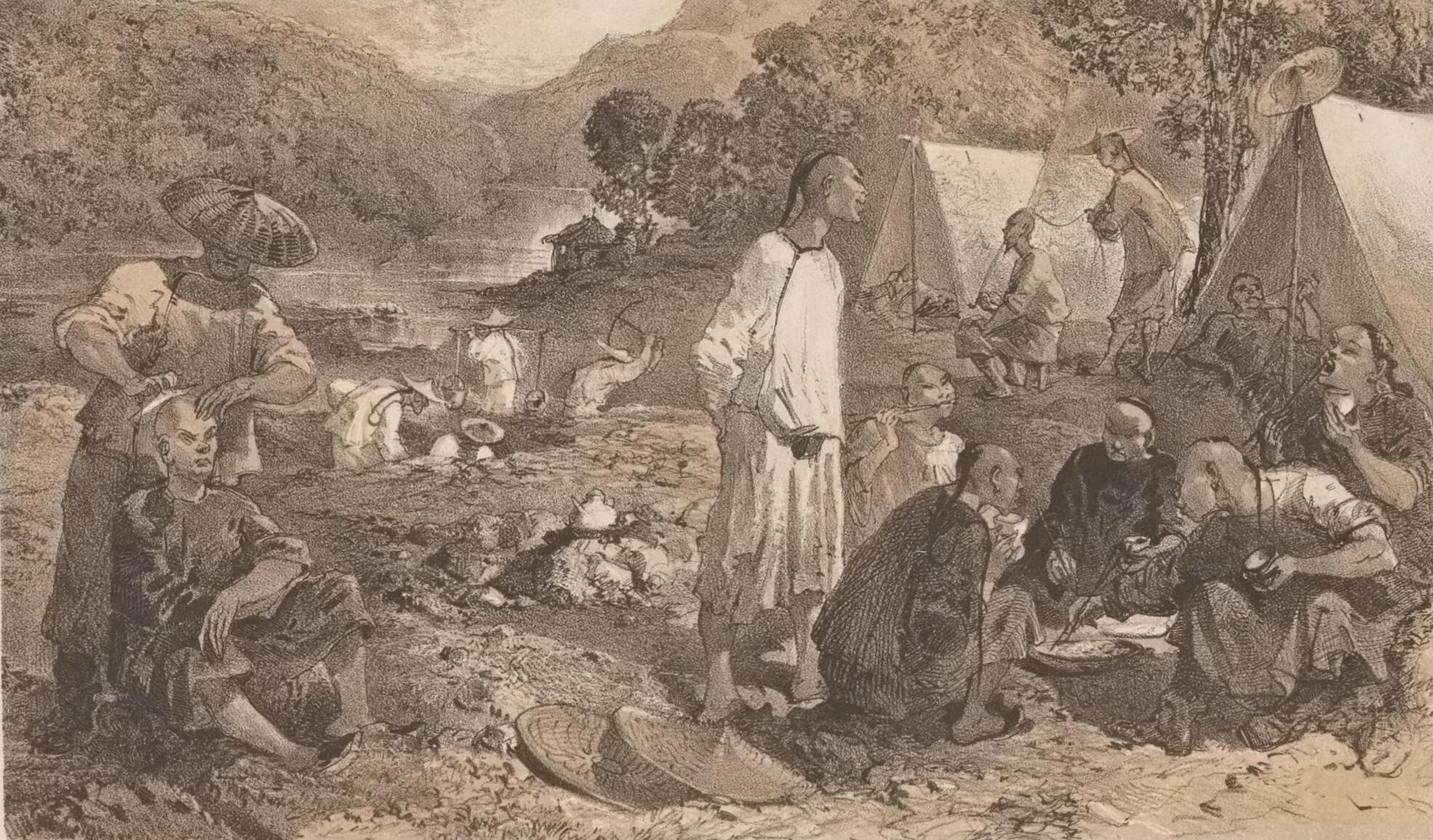 Chinese Camp in the Mines. Rock Springs massacre, 1885.